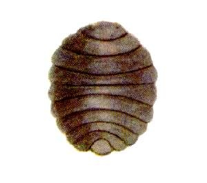 Wattle mealybug. Melanococcus albizziae (Hemiptera: Pseudococcidae)